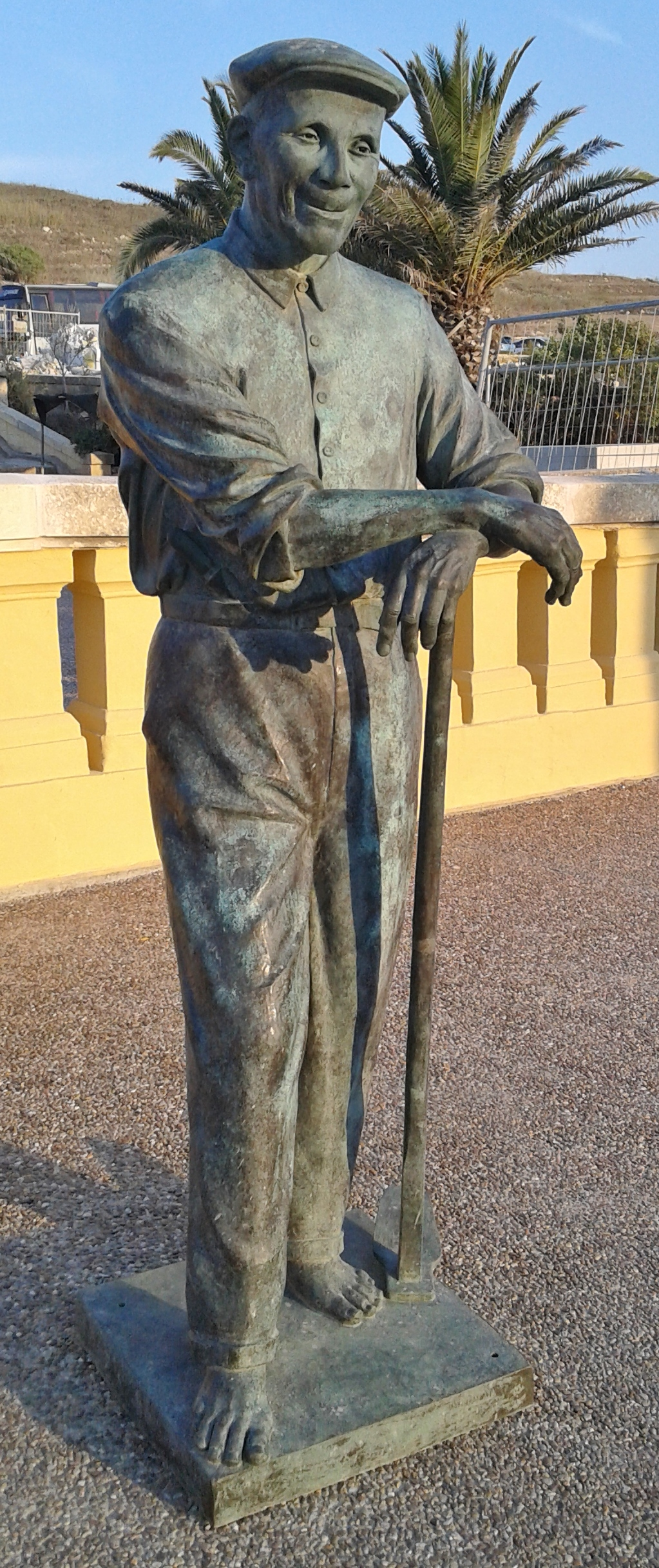 A statue of Frenċ tal-Għarb outside Ta' PInu Sanctuary - Gozo Malta.